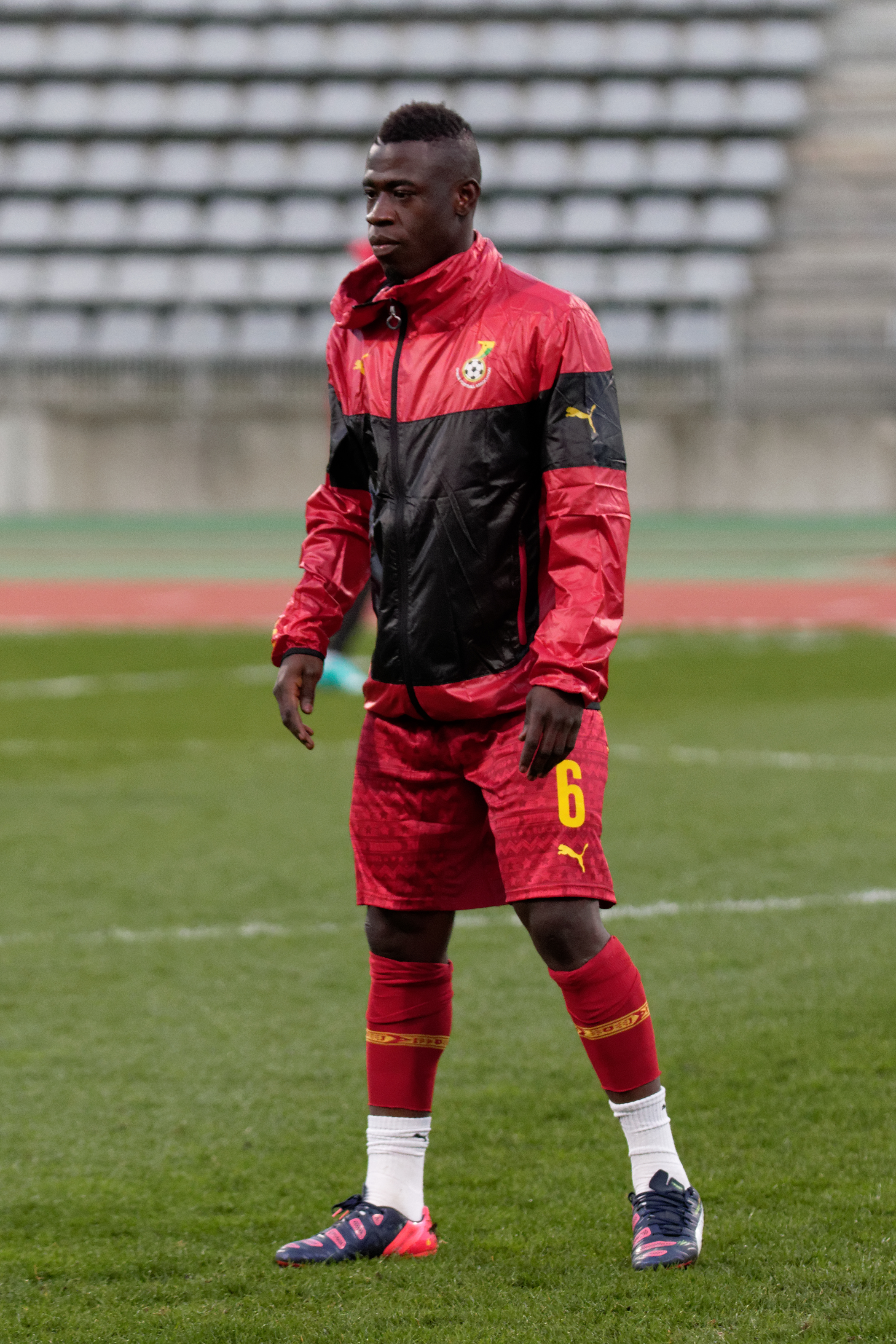 Mali vs Ghana, exhibition game at Paris, 31st March 2015.